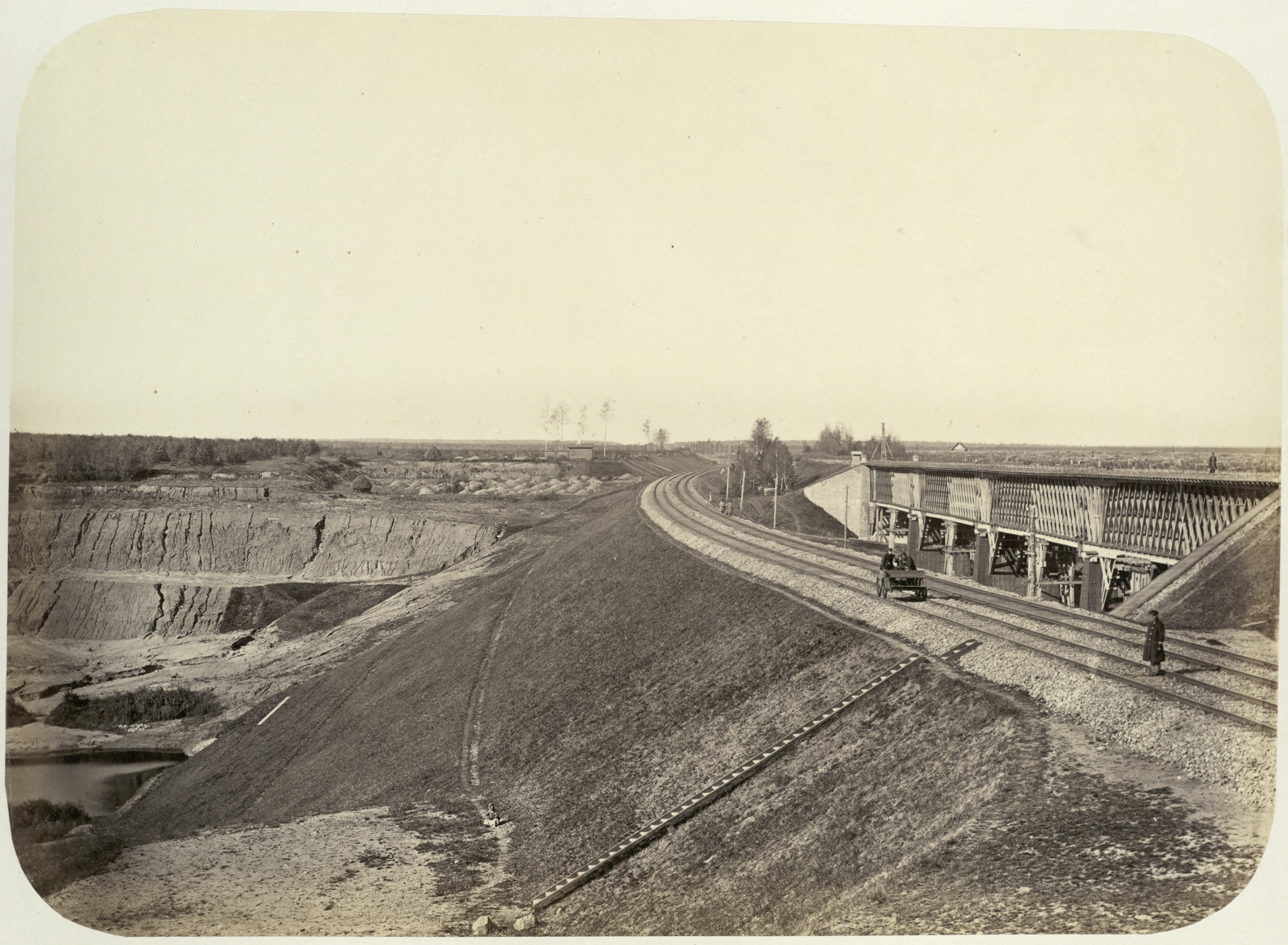 Railway bridge on Nikolaev Railway over the Skhodnya River